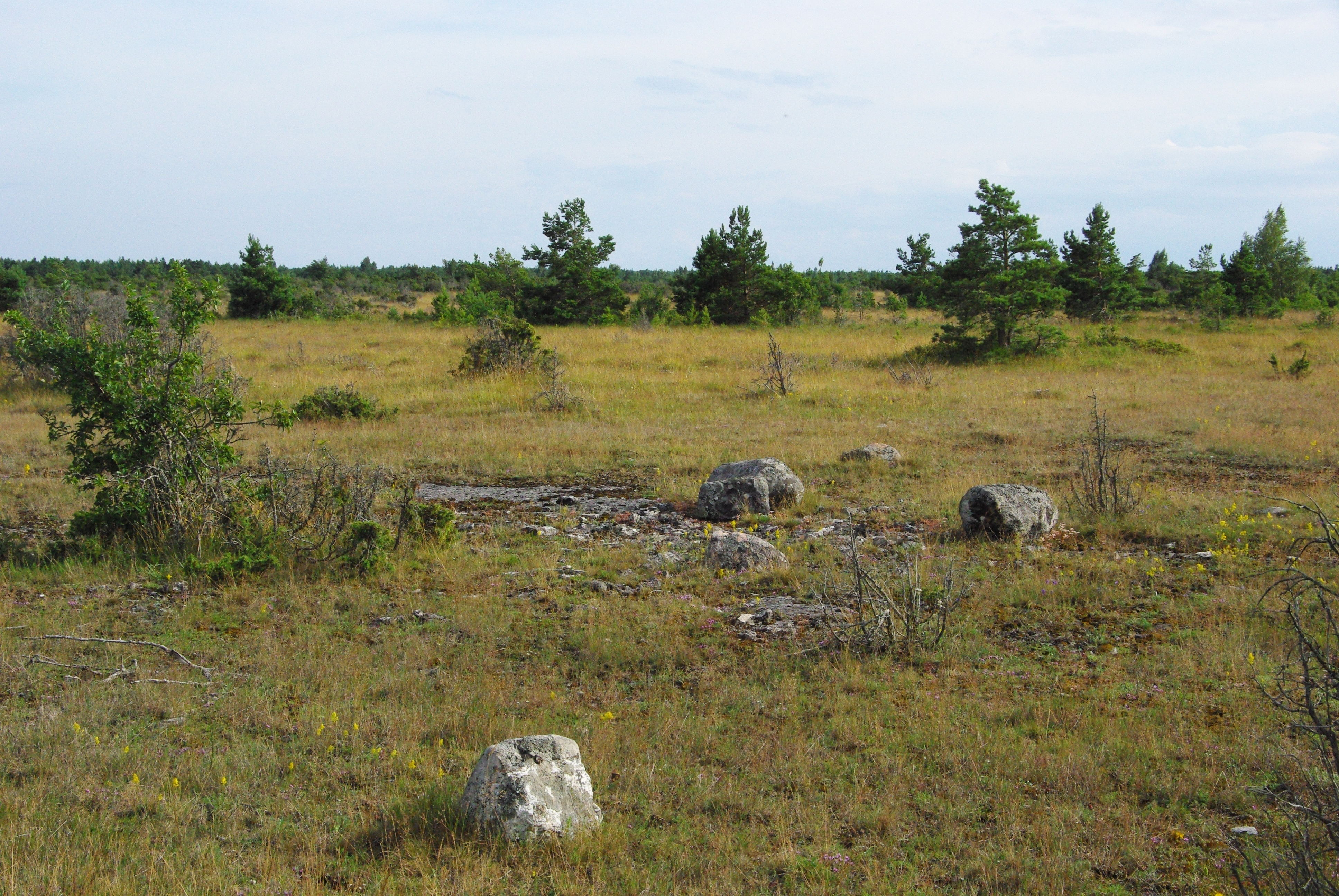 Lõo alvar grassland in Saaremaa, Estonia